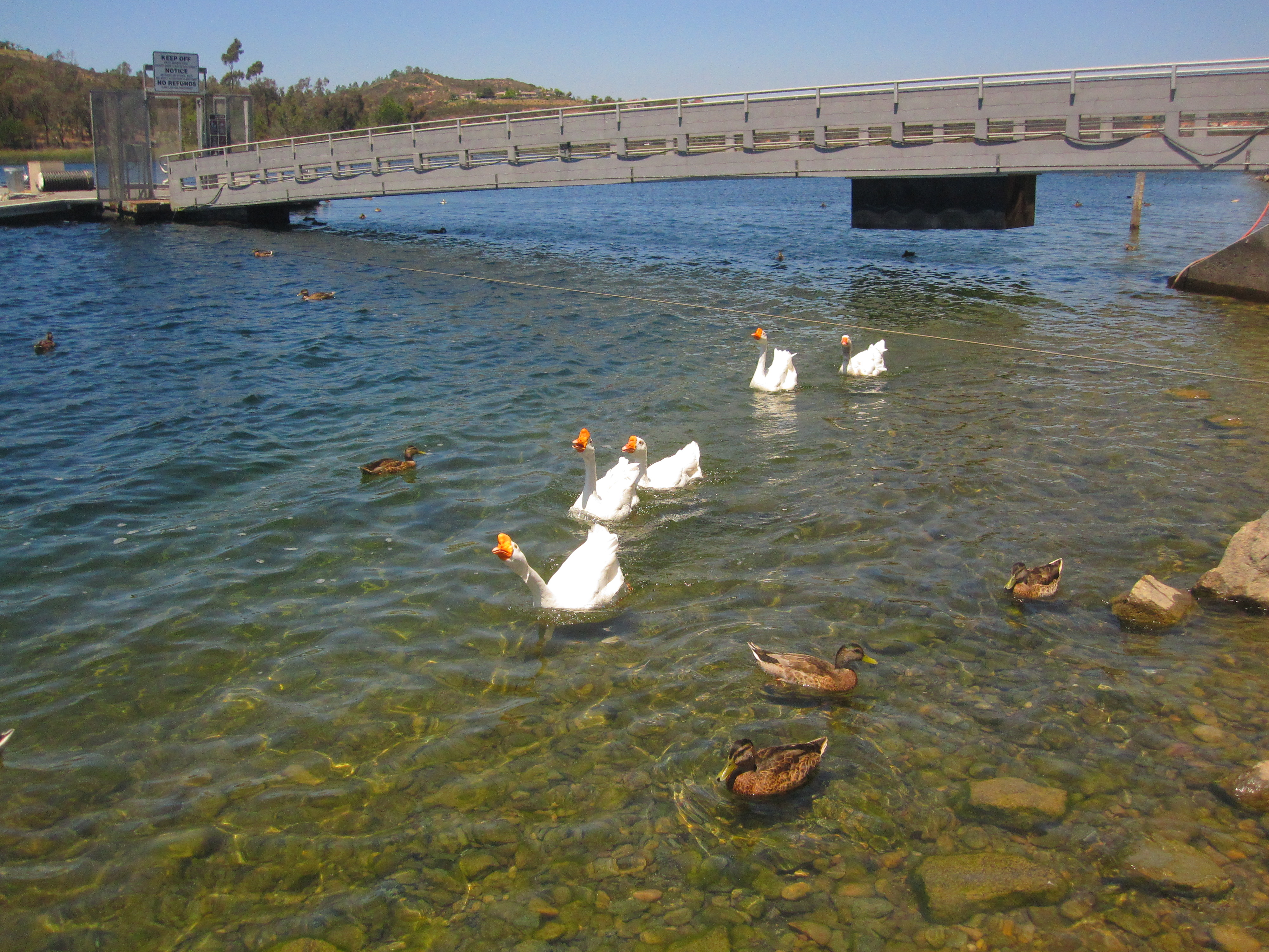 Ducks and Geese at Lake Miramar